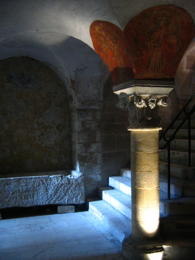 This photo shows the crypt inside the Bayeux Cathedral, in Normandy, France.